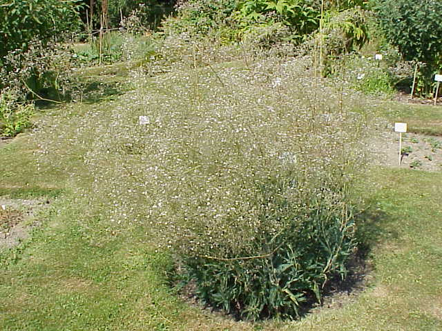 Species: Gypsophila acutifolia Family: Caryophyllaceae Image No. 3